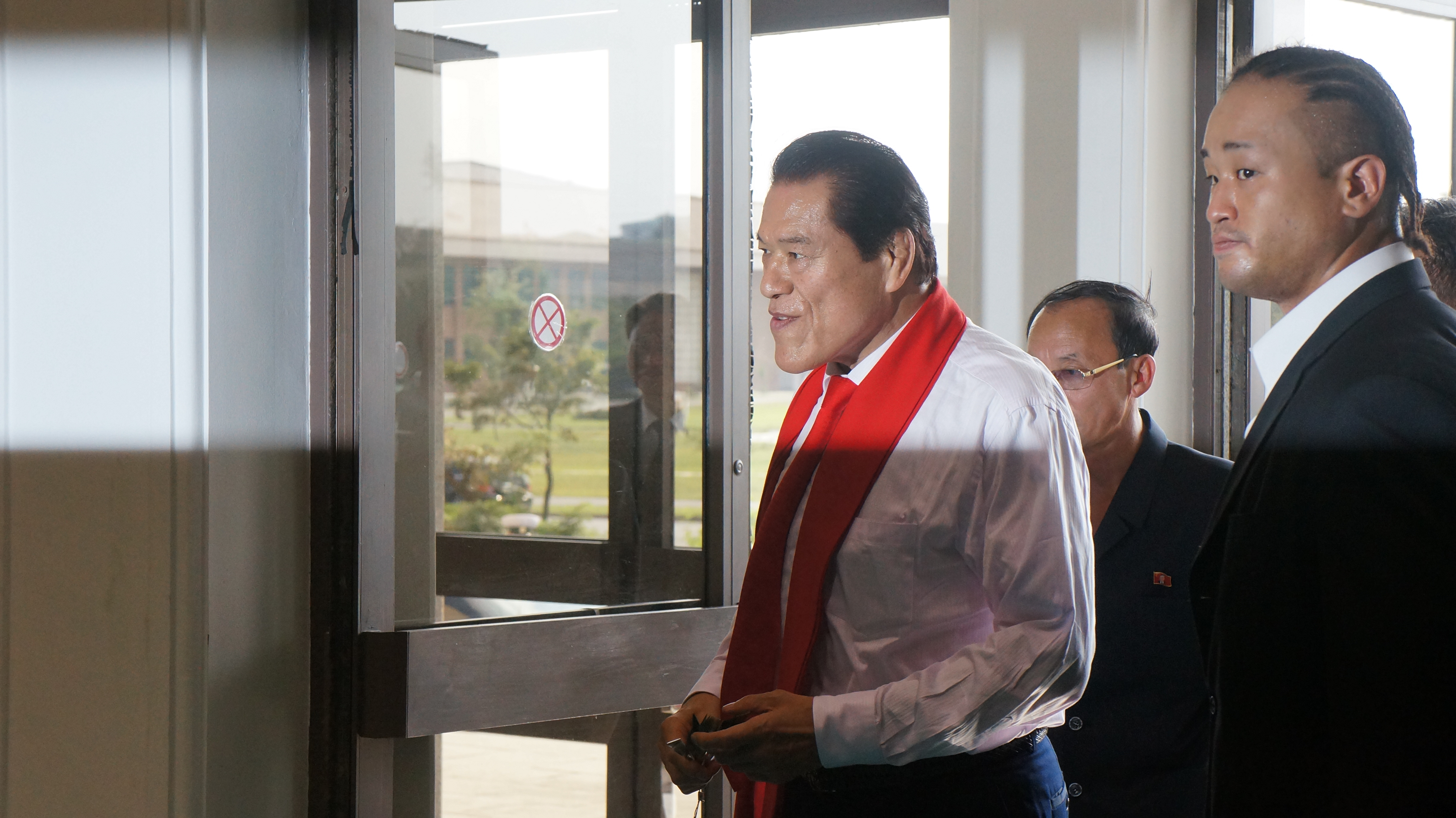 Inoki Pro Wrestling Friendship Event in Pyongyang August 2014